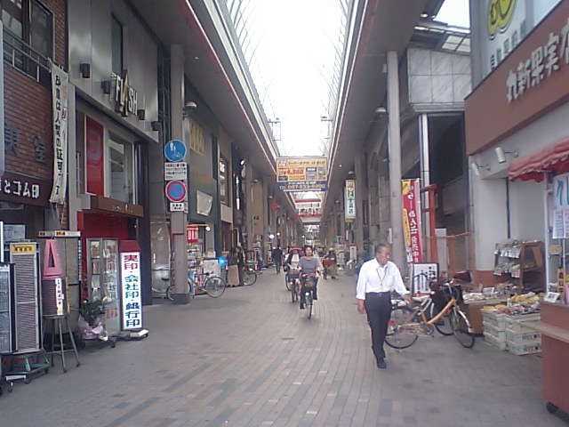 Tokiwa Chō shōtengai, Takamatsu chuō shōtengai.